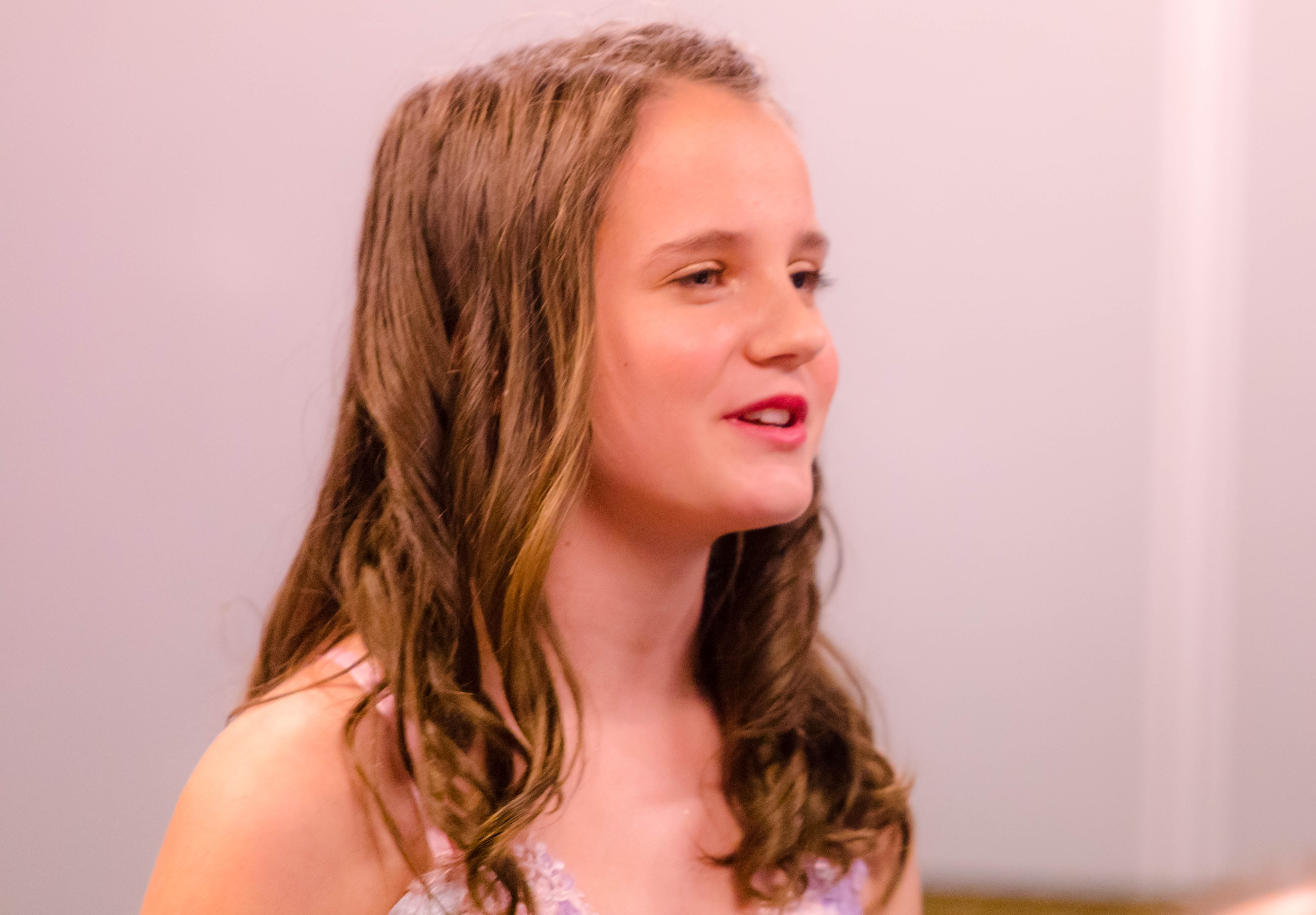 Amira Willighagen Singer Soprano